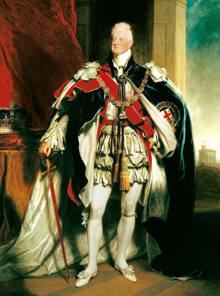 The King is here shown in Garter Robes with his right hand on his sword and St Edward's Crown and sceptre beside him on a cushion resting on a covered table. He wears the Collar of the Order of the Garter with a Great George pendant therefrom. In the distance to the right is a view of the Round Tower of Windsor Castle.